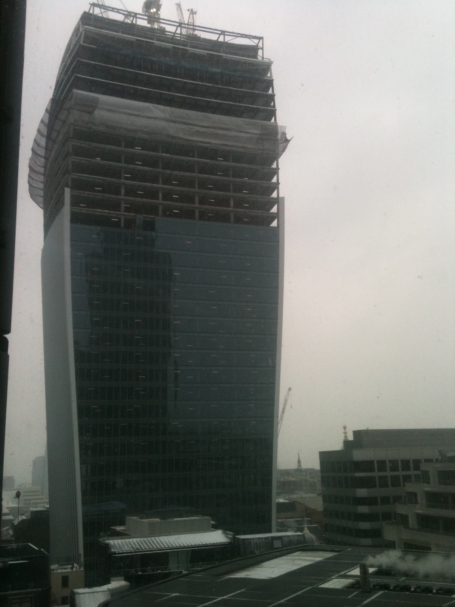 20 Fenchurch Street under construction in January 2013. Photo taken from the Lloyd's building on Lime Street.